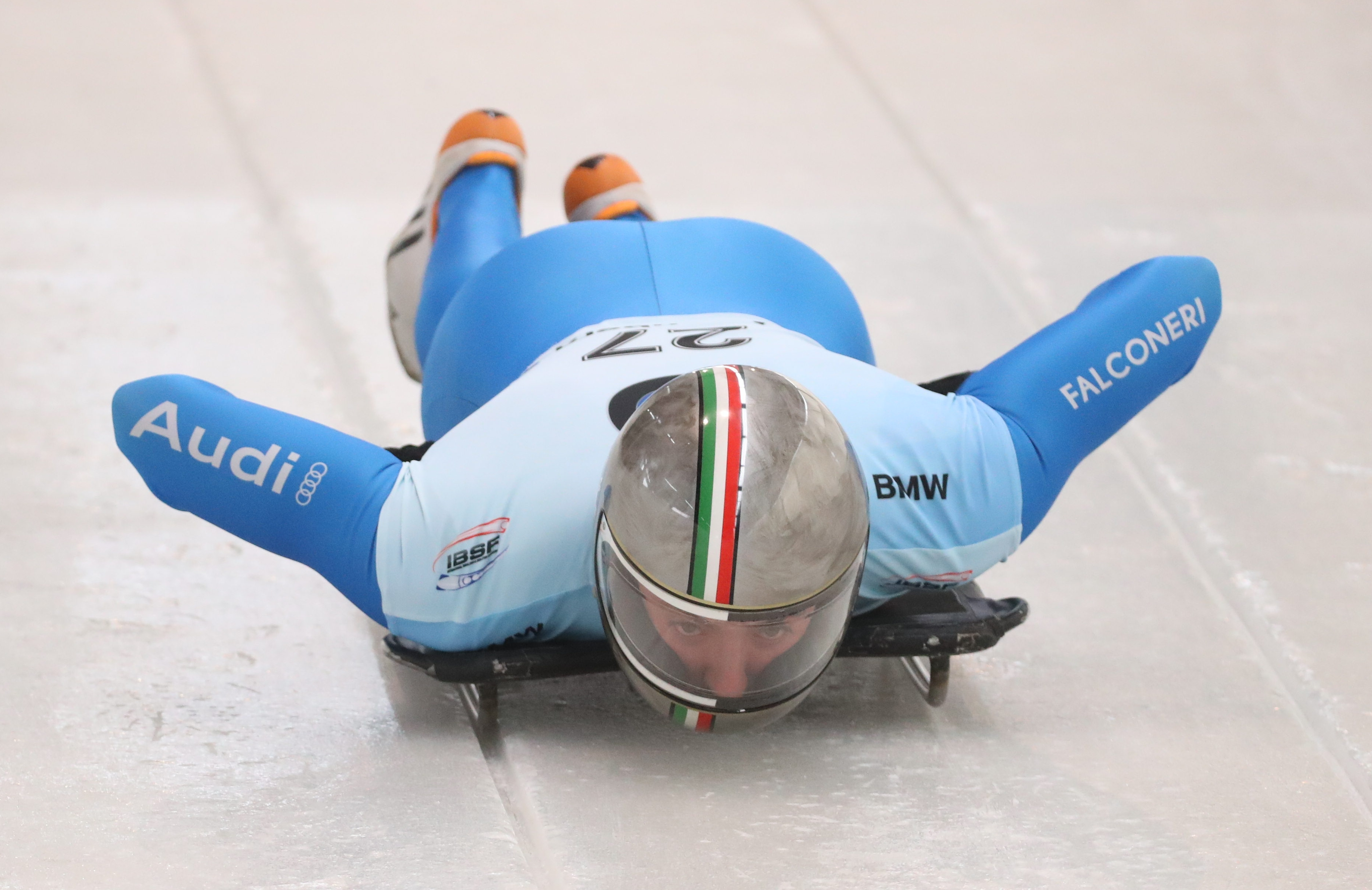 1st run at the Men's Skeleton at the Bobsleigh and Skeleton World Championships 2020 in Altenberg